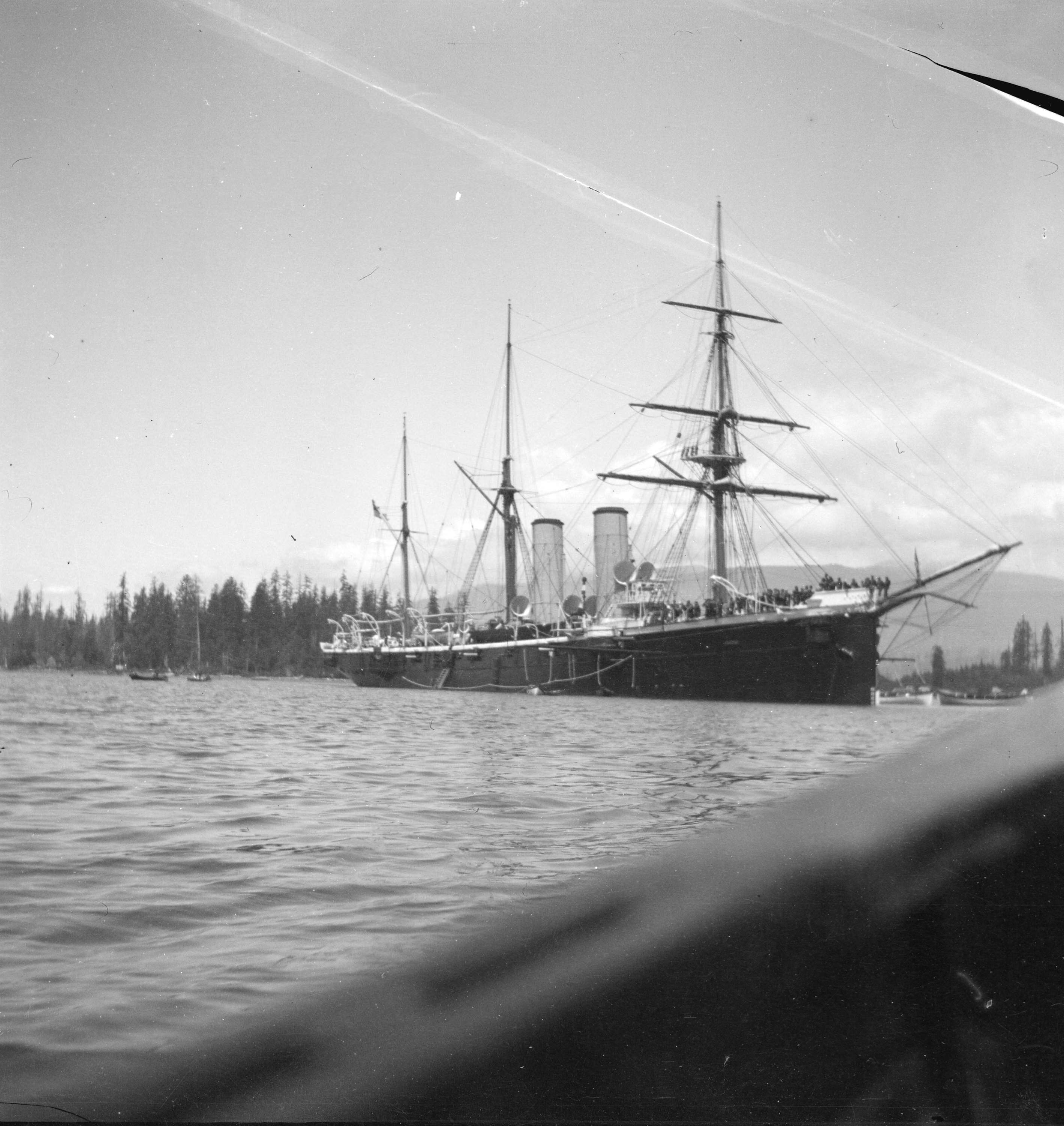 HMS Amphion. Appears to be at Esquimalt, British Columbia, Canada.